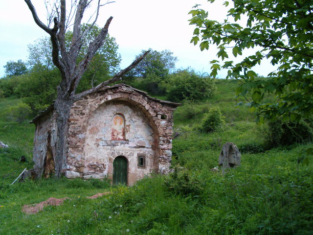 Malomalovo monastery, Church Sveti Nikolay (St Nicholas), Bulgaria